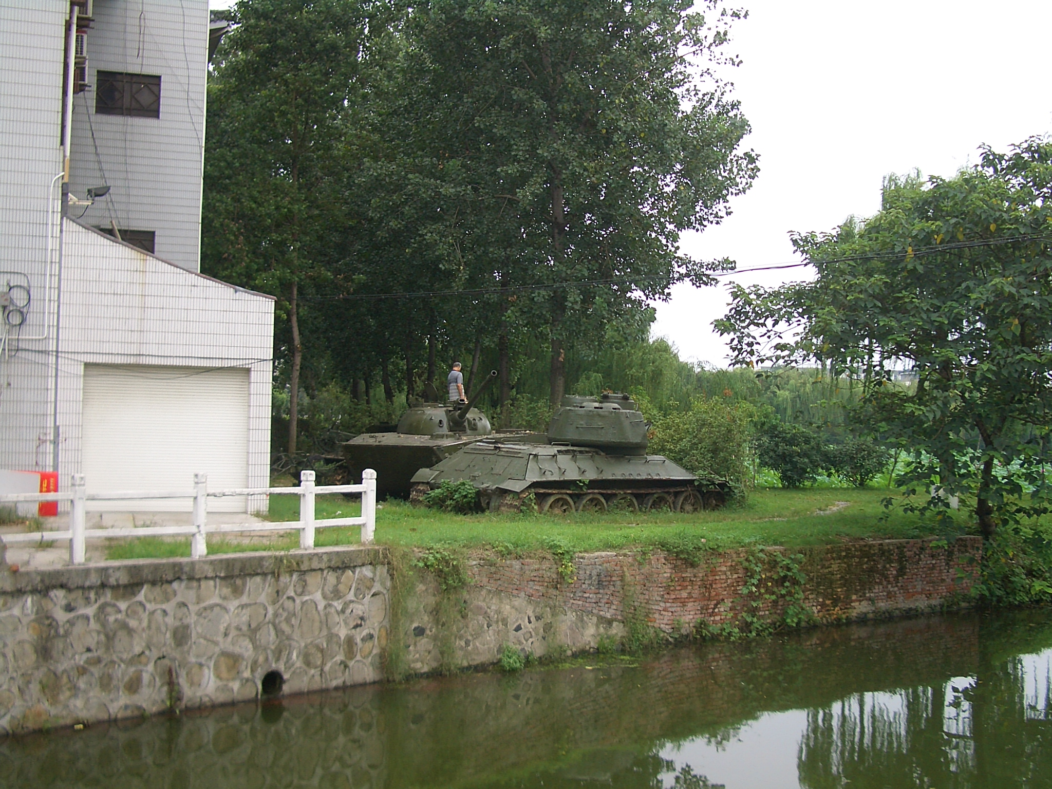 A few tanks parked behind a Honda motorcycle dealership just south-west of Hehuachi Park in Yangzhou